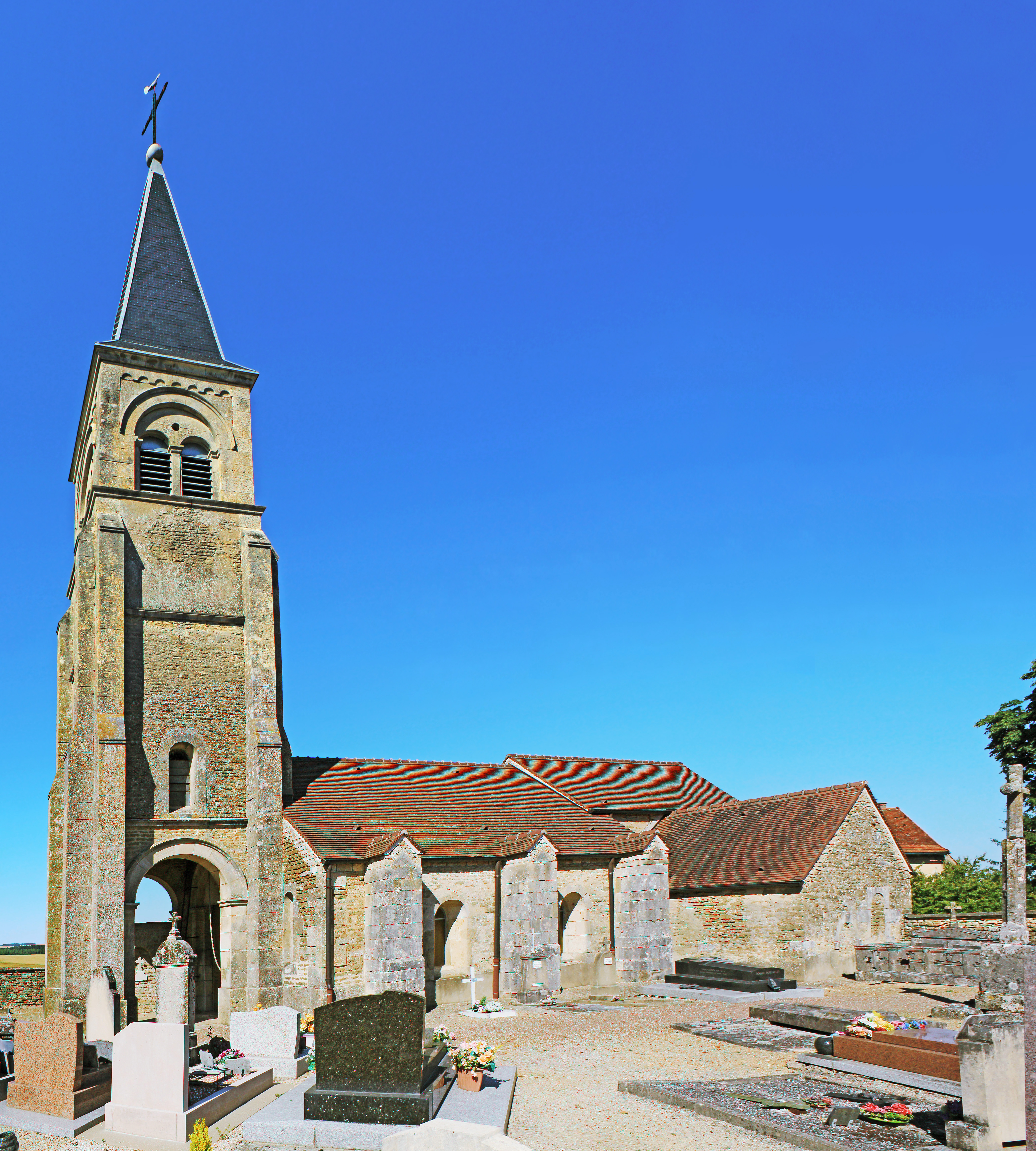 St Martin church with porch tower in Étormay